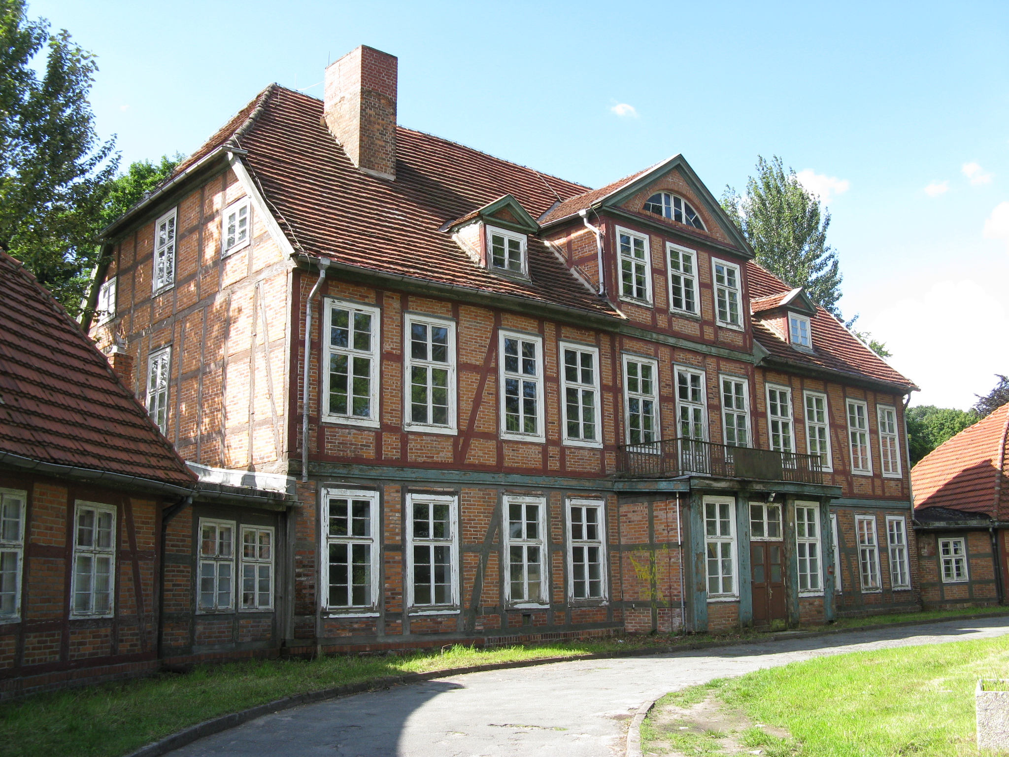 Hunting lodge Jagdschloss Friedrichsthal in Schwerin, Mecklenburg-Vorpommern, Germany